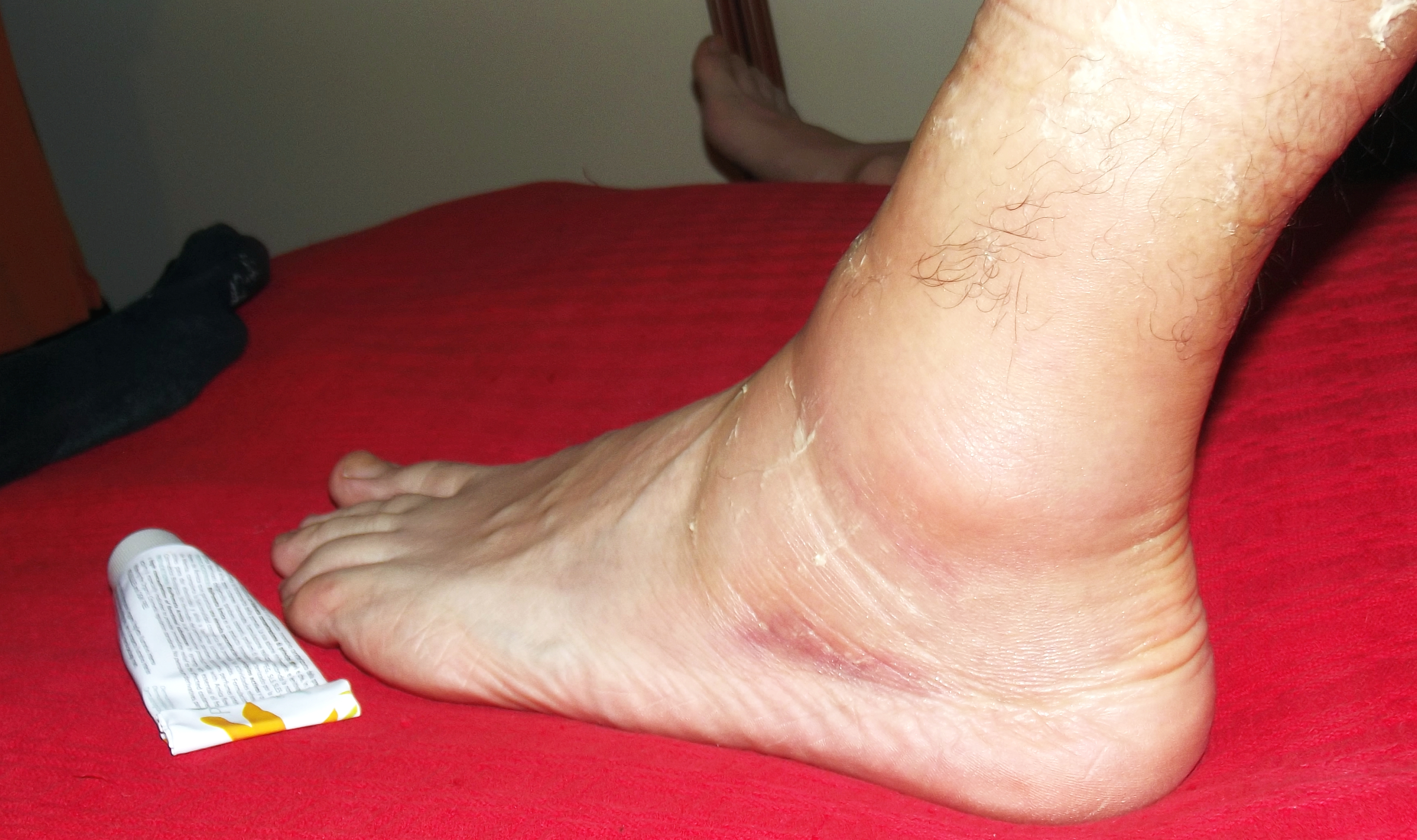 Ankle sprain treated with an arnica based ointment